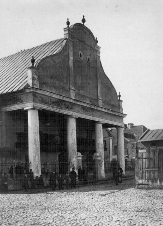 Synagogue in Kutno, Polandm destroyed in 1942.